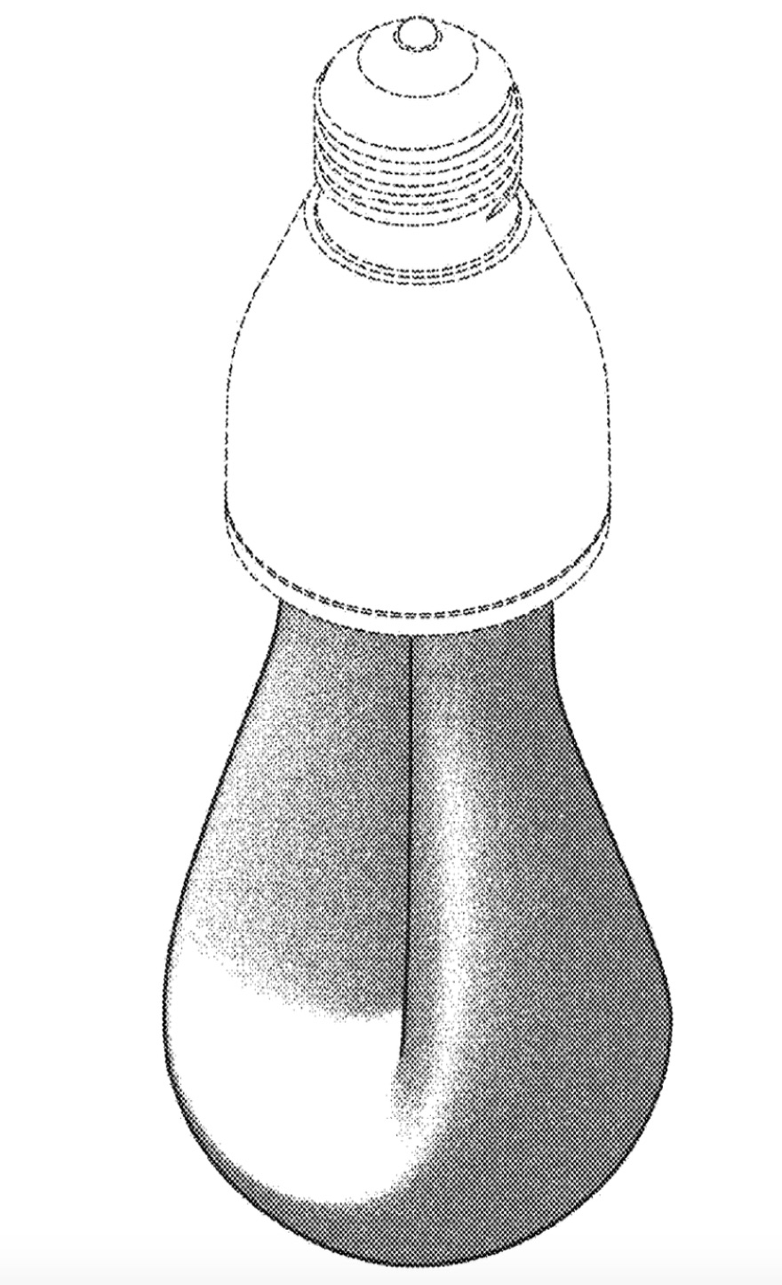 Image from patentUS D738545 S